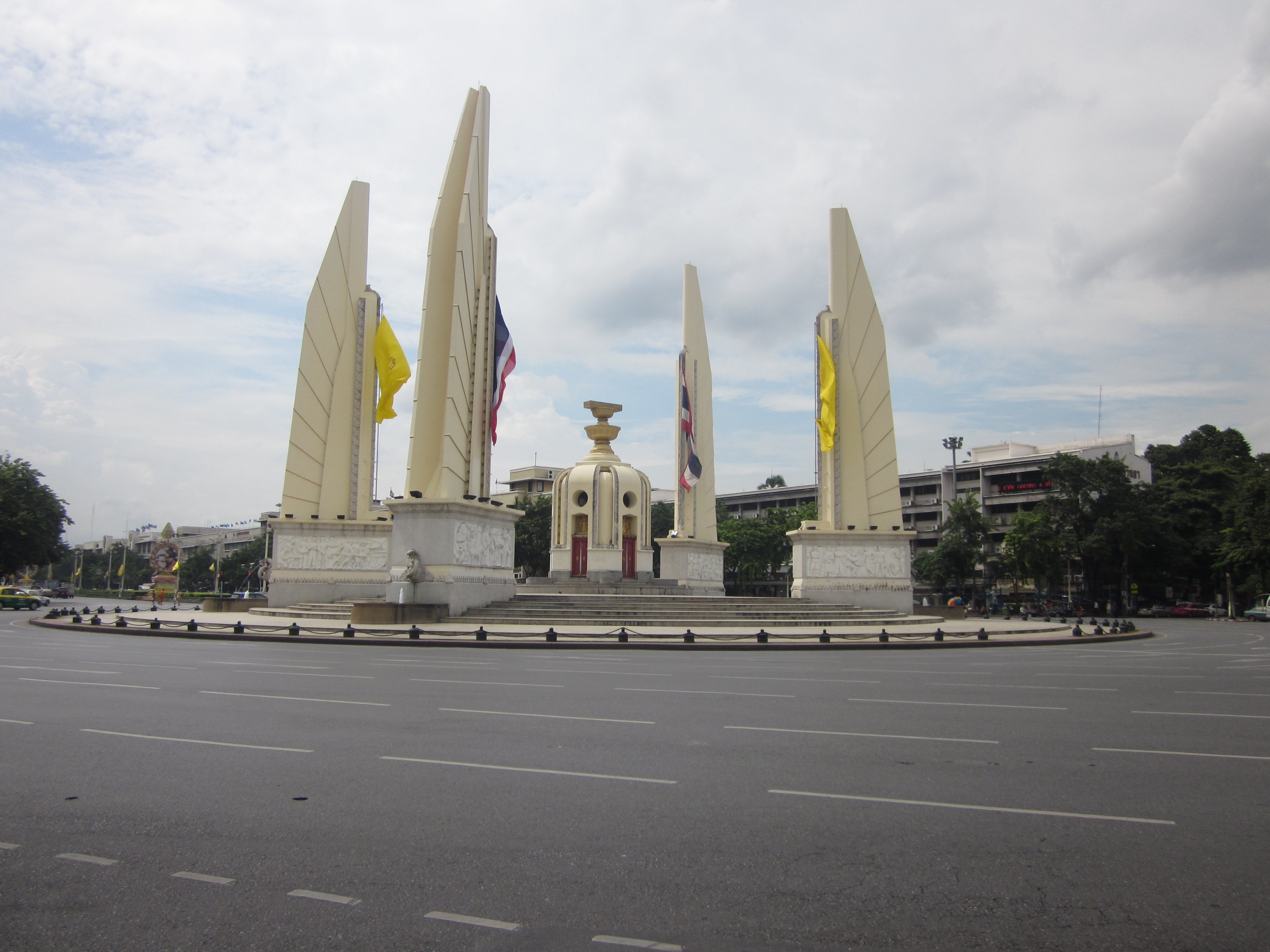 "The Democracy Monument (Thai: อนุสาวรีย์ประชาธิปไตย Anusawari Prachathipatai) is a public monument in the centre of Bangkok, capital of Thailand. It occupies a traffic circle on the wide east-west Ratchadamnoen Klang Road, at the intersection of Dinso Road. The monument is roughly halfway between Sanam Luang, the former royal cremation ground in front of Wat Phra Kaew, and the temple of the Golden Mount (Phu Kao Thong)."